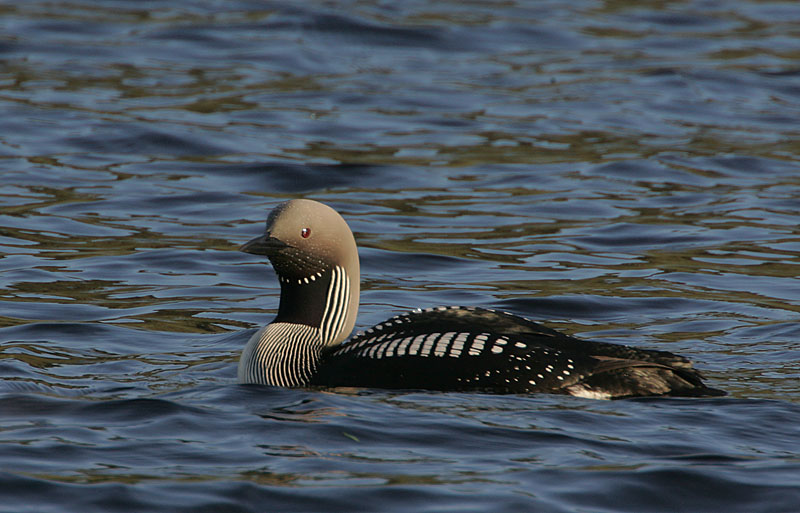 These beautiful birds breed on large, usually remote lochs containing small well-vegetated islands which they need for breeding. Unlike Red-throated Divers they tend to feed on their breeding lochs. Like all the loons they have a beautiful haunting call. This image was taken at an undisclosed location in Central Scotland from my car window using a beanbag, 500mm IS lens with stacked 1.4x & 2x converters.